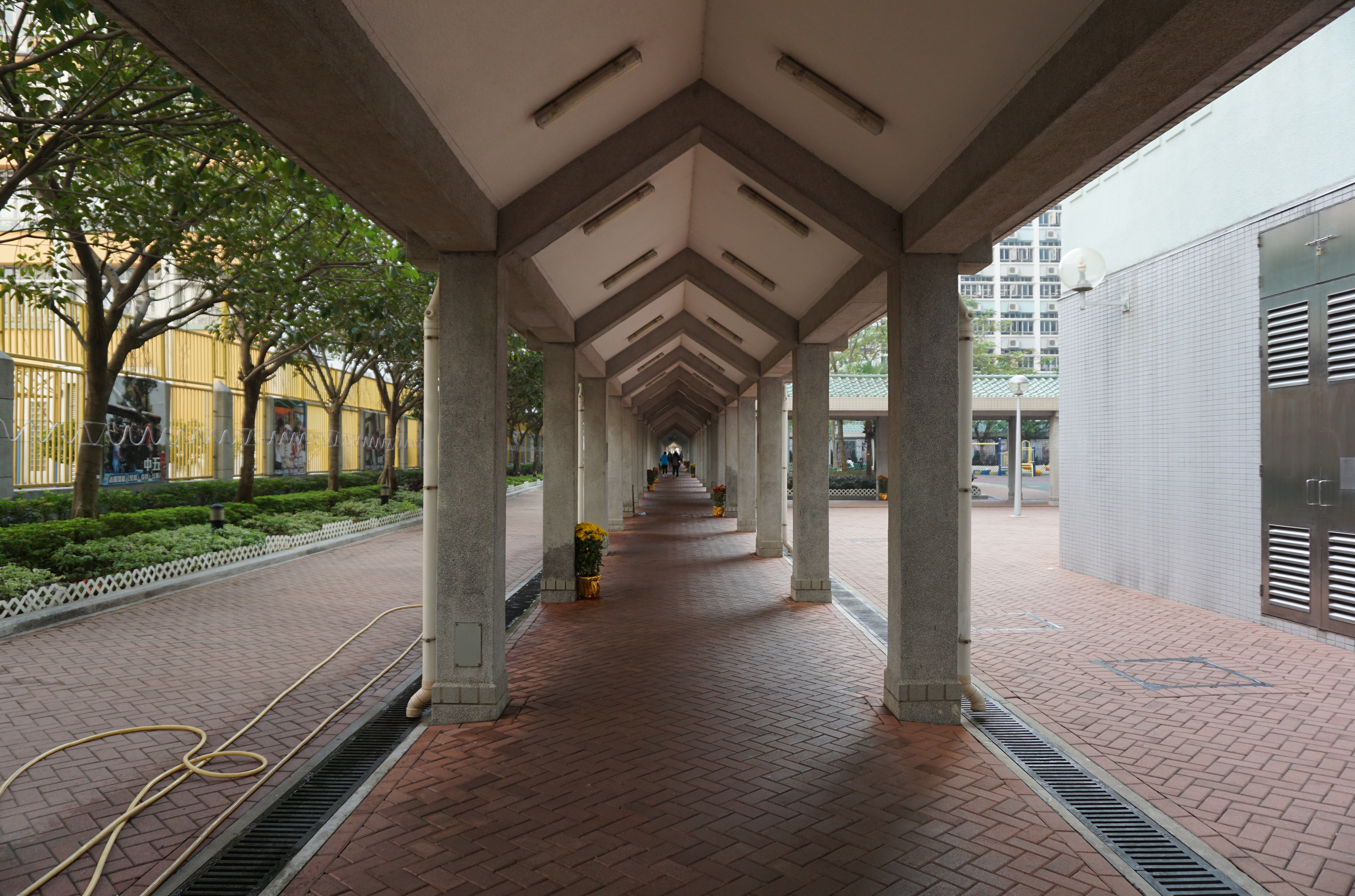 Tin Fu Court in Tin Shui Wai, Hong Kong.